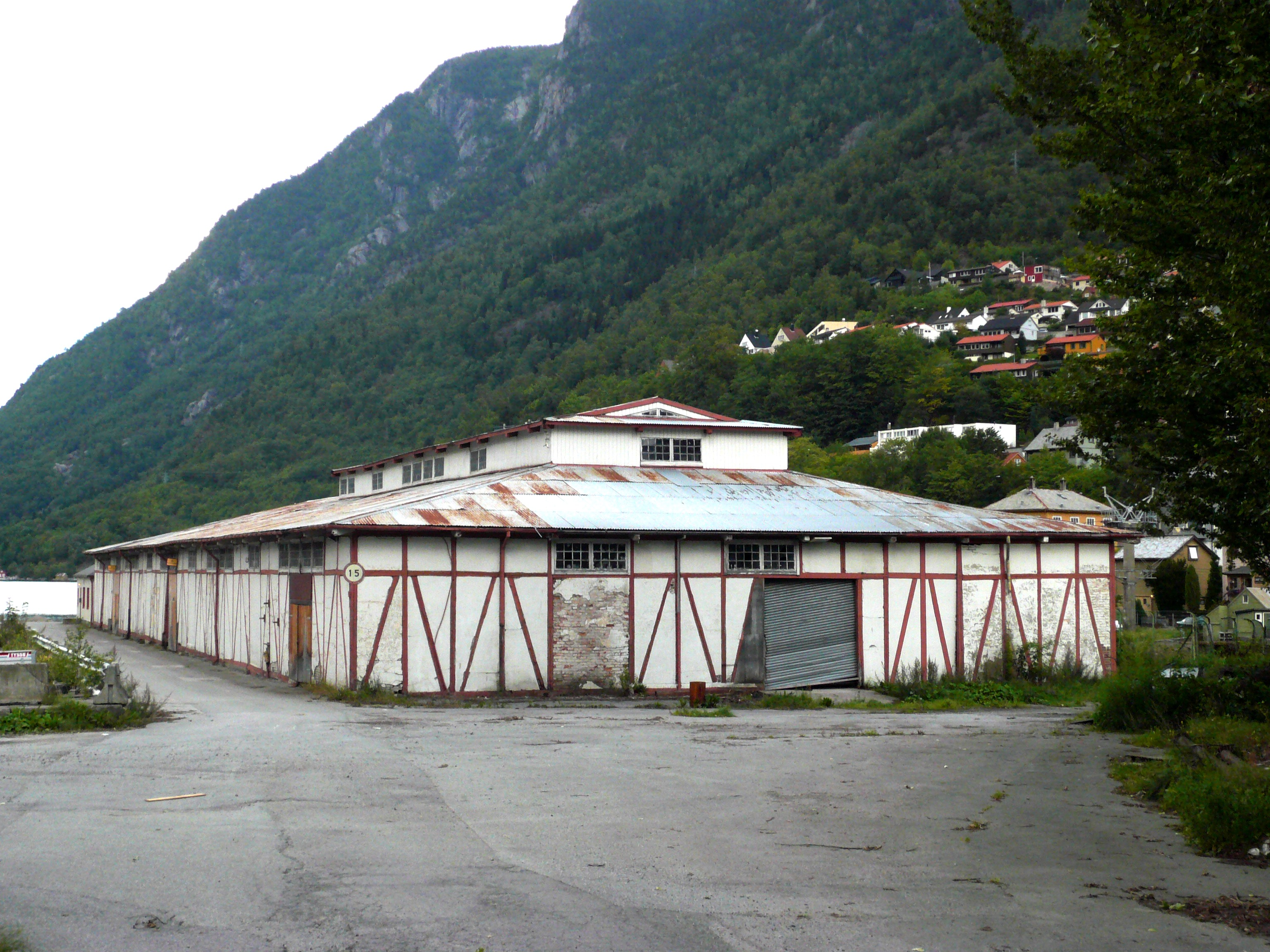 Export Storage house, Cyanamide and Carbide, 1907. Odda, Norway (2010).